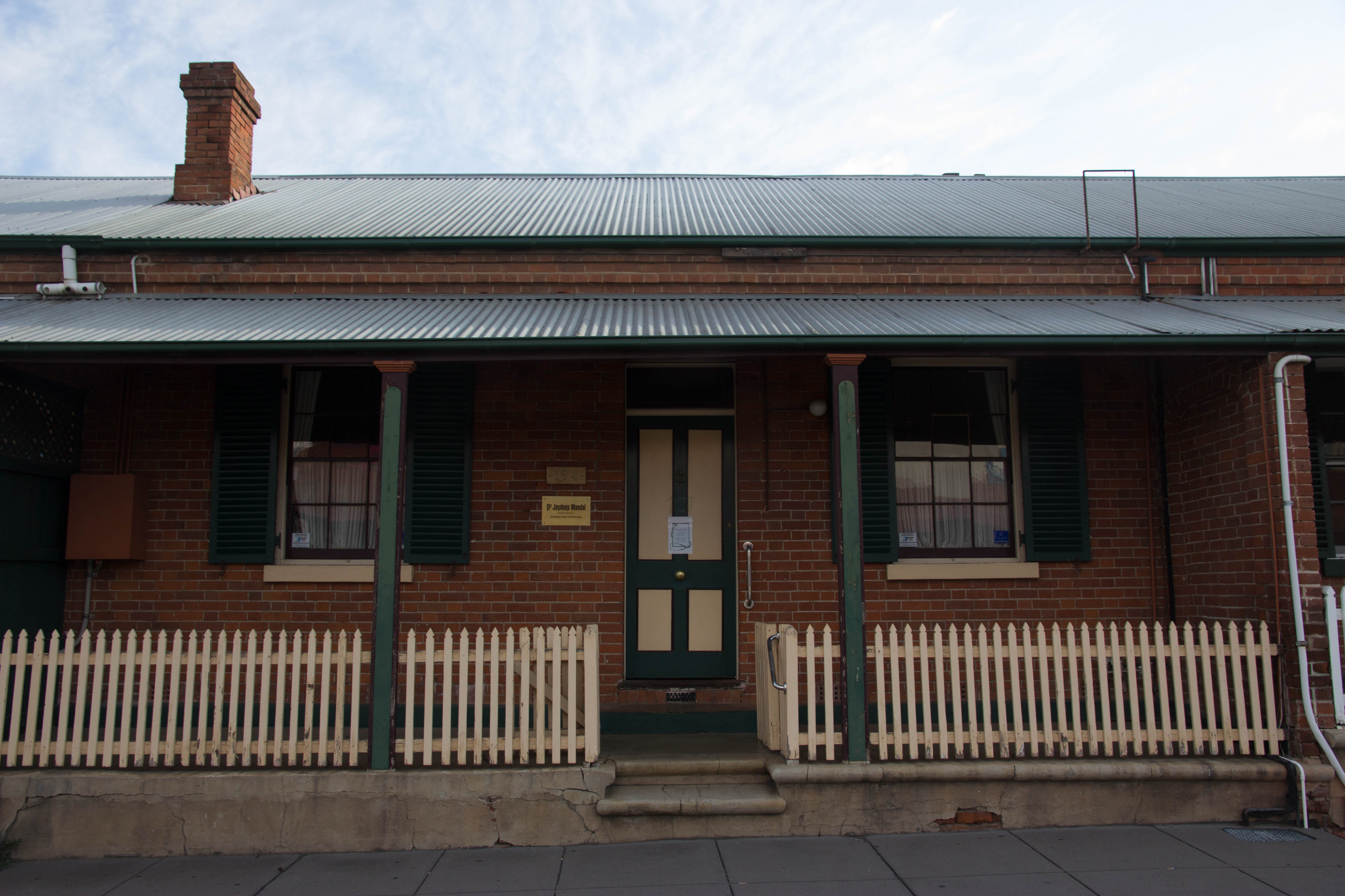 Federation architecture heritage-listed cottages in Howick Street, Bathurst, New South Wales